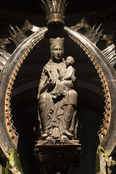 Solsona; Catedral; Catalunya, lleida; Spain; Cathedral. Interior. The chapel Capella de la Mare de Déu del Claustre. The altar. A statue. Madonna with Child. romanesque. ; photo: Paul M.R. Maeyaert; ; Ref: PM_107322_E_Solsona.jpg